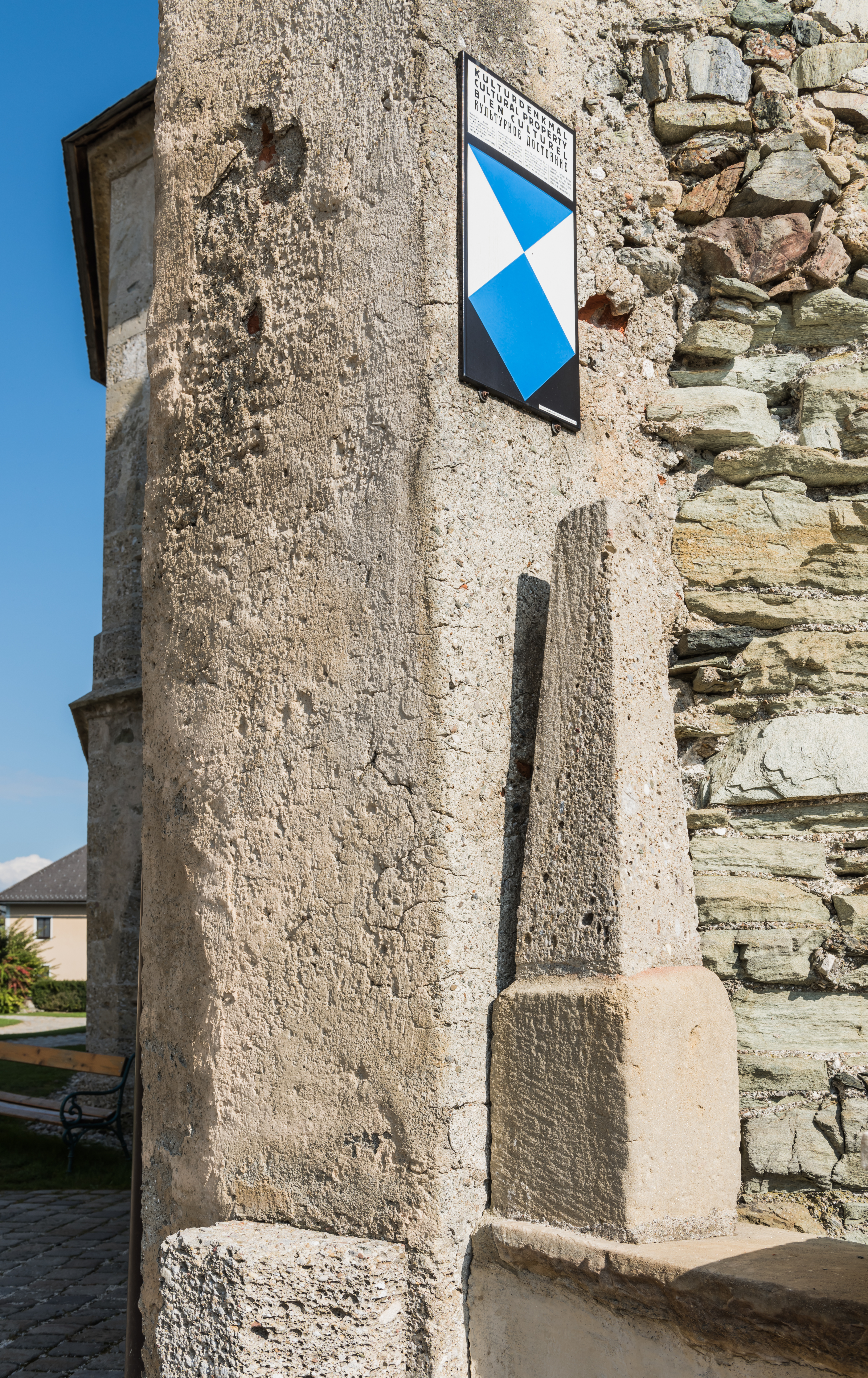 Obelisk at the entrance on Domplatz #6, market town Maria Saal, district Klagenfurt Land, Carinthia, Austria, EU